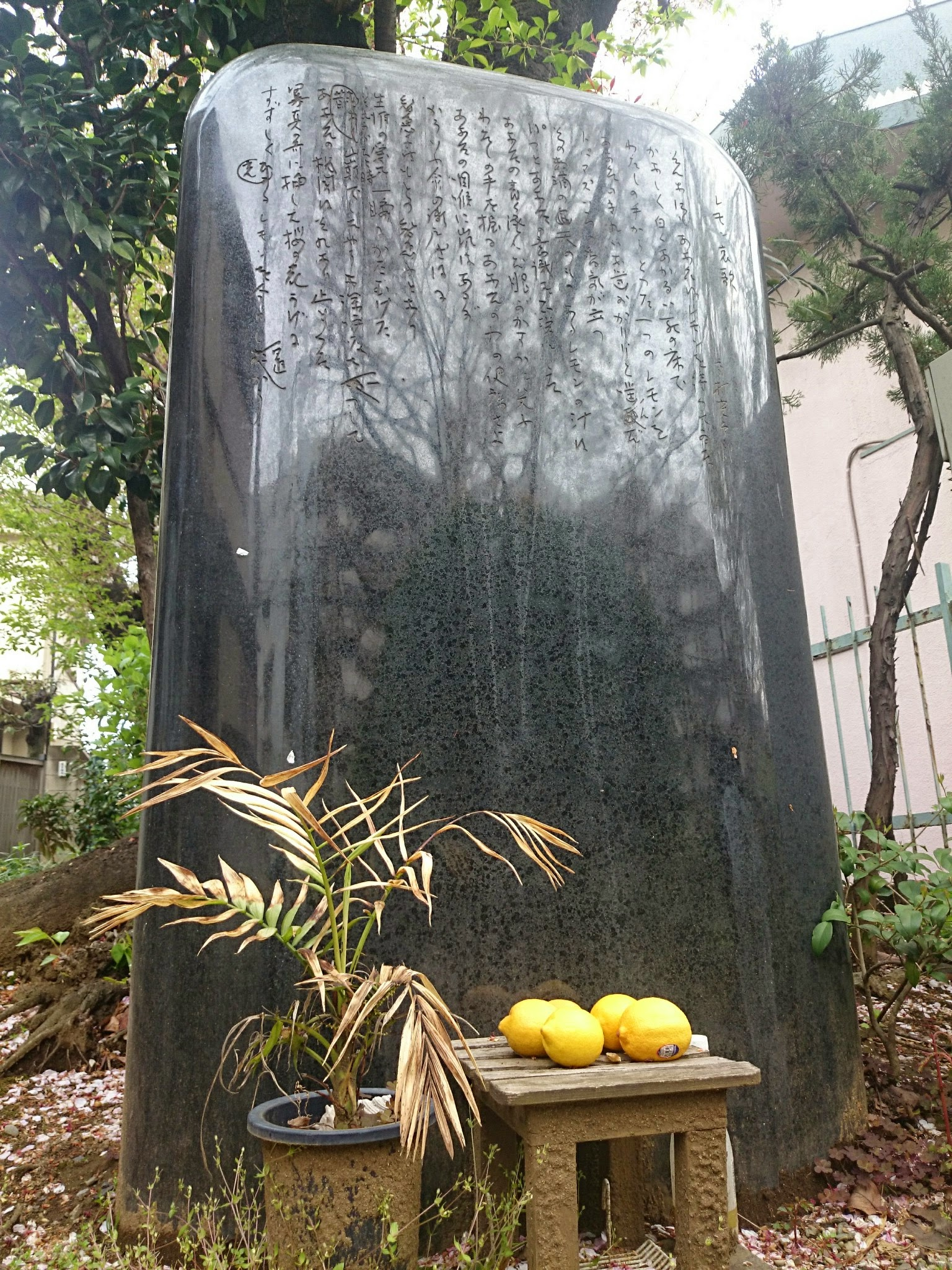 Memorial monument of Chieko Takamura at her deathplace.